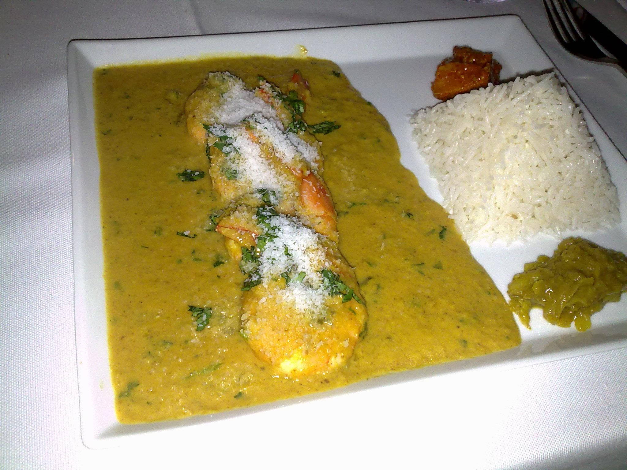 "Caril de camarão" (prawn curry), a goan dish, in Lisbon, Portugal.